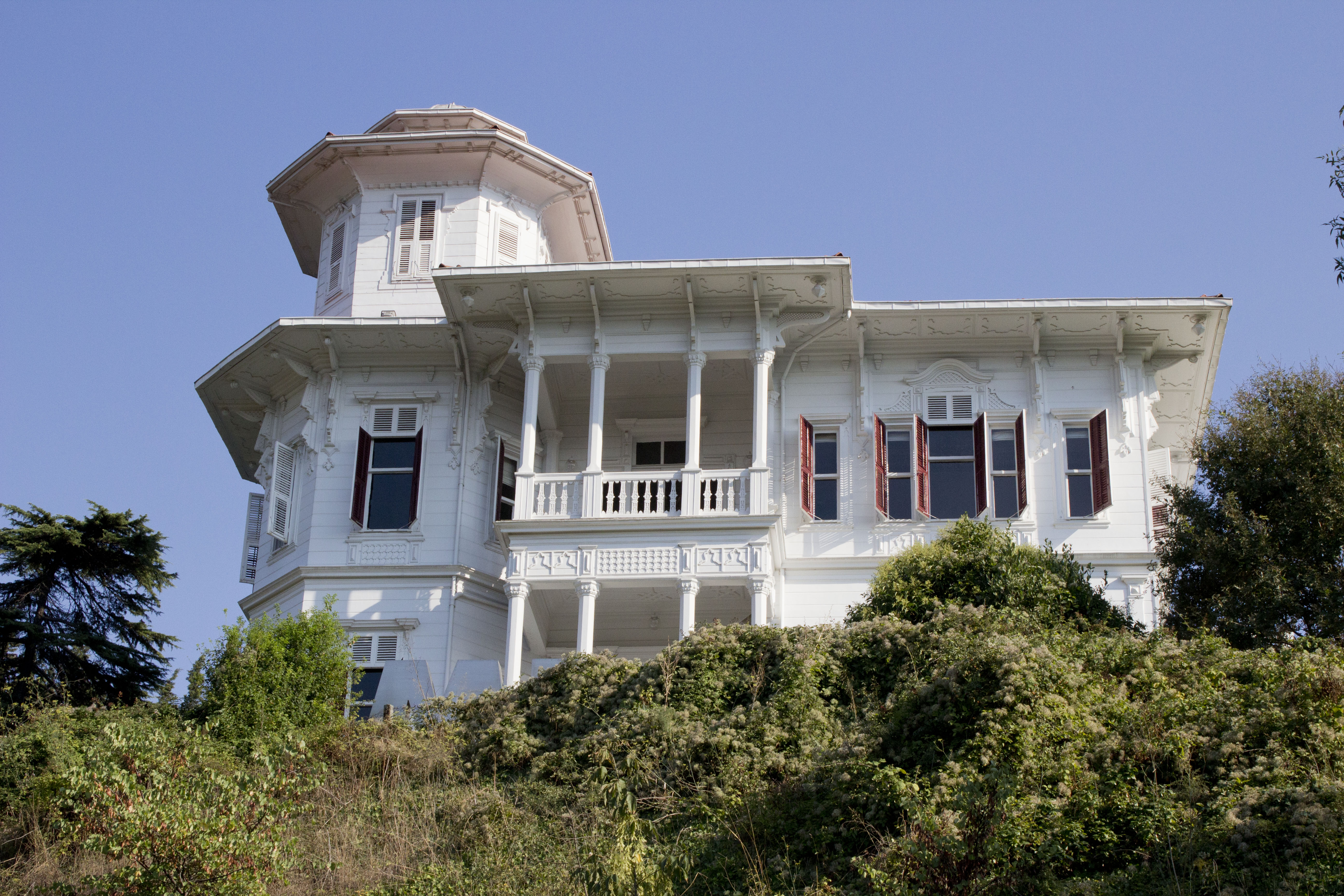 A restored mansion just south of the eastern end of the Bosporus bridge, Istanbul